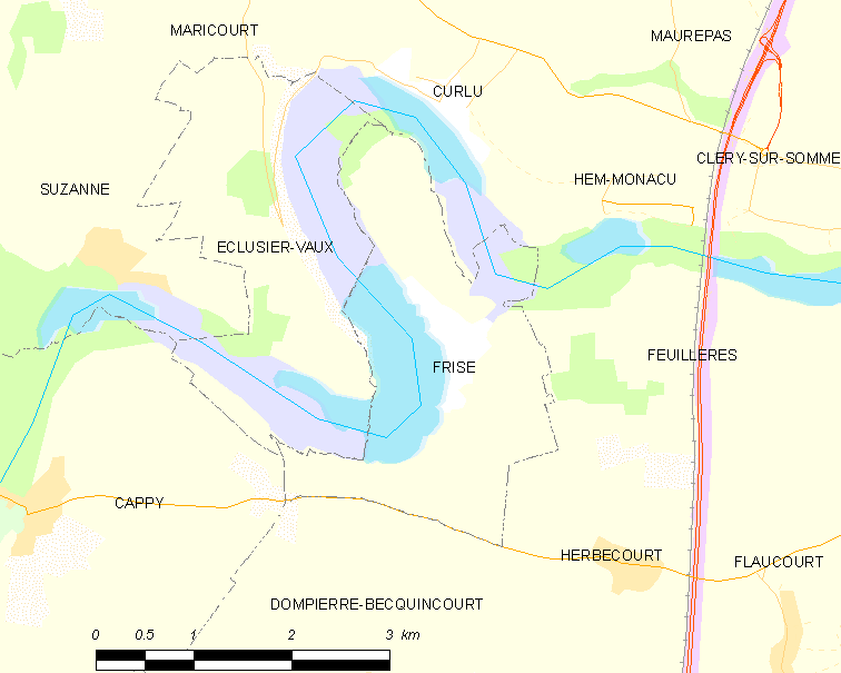 Map of French municipality Frise